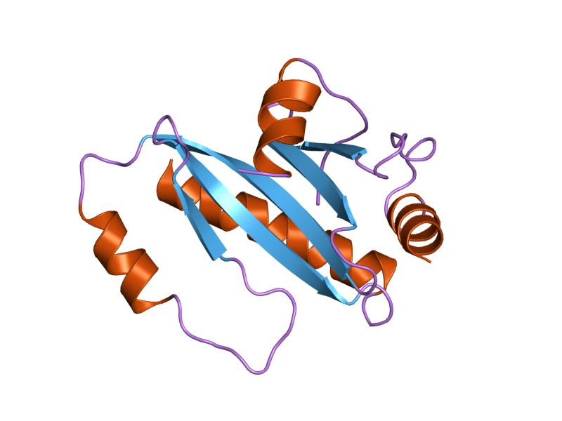 Cartoon representation of the molecular structure of protein registered with 1ttw code.